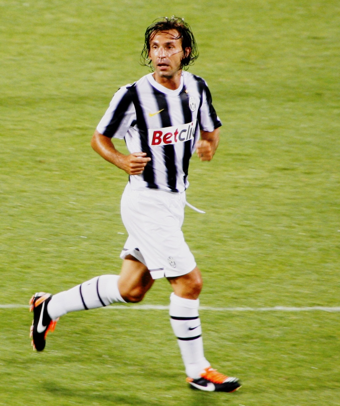 Andrea Pirlo (Juventus vs Club America)